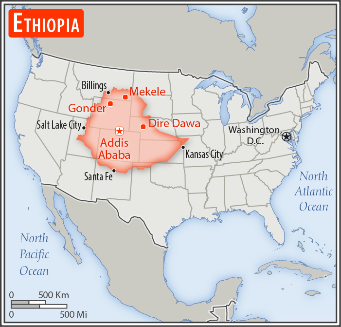 Comparison of the areas of two country. The area of Ethiopia with biggest cities (red) overlay the area of the United States of America (gray background).